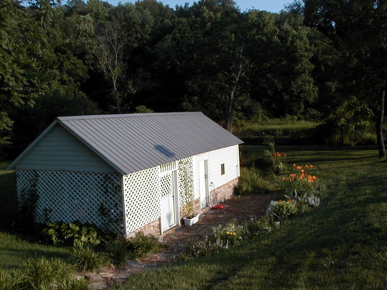 Tomahawk Springhouse, near Hedgesville, West Virginia, USA